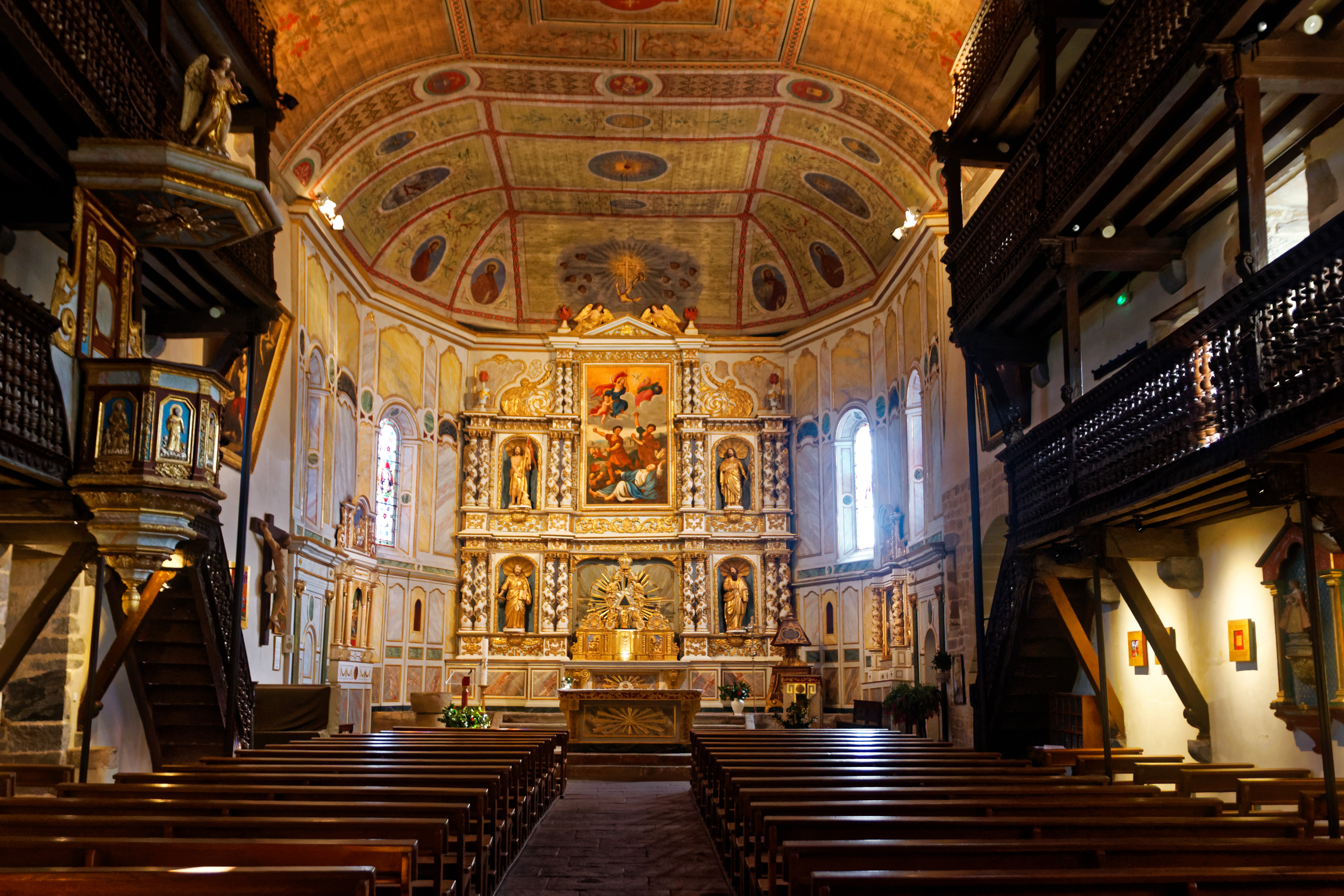 Nave whose vessel is made entirely of painted wood.